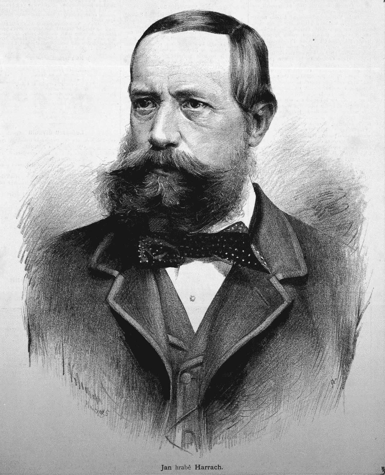 Jan Harrach (1828-1909), Czech politician and maecene